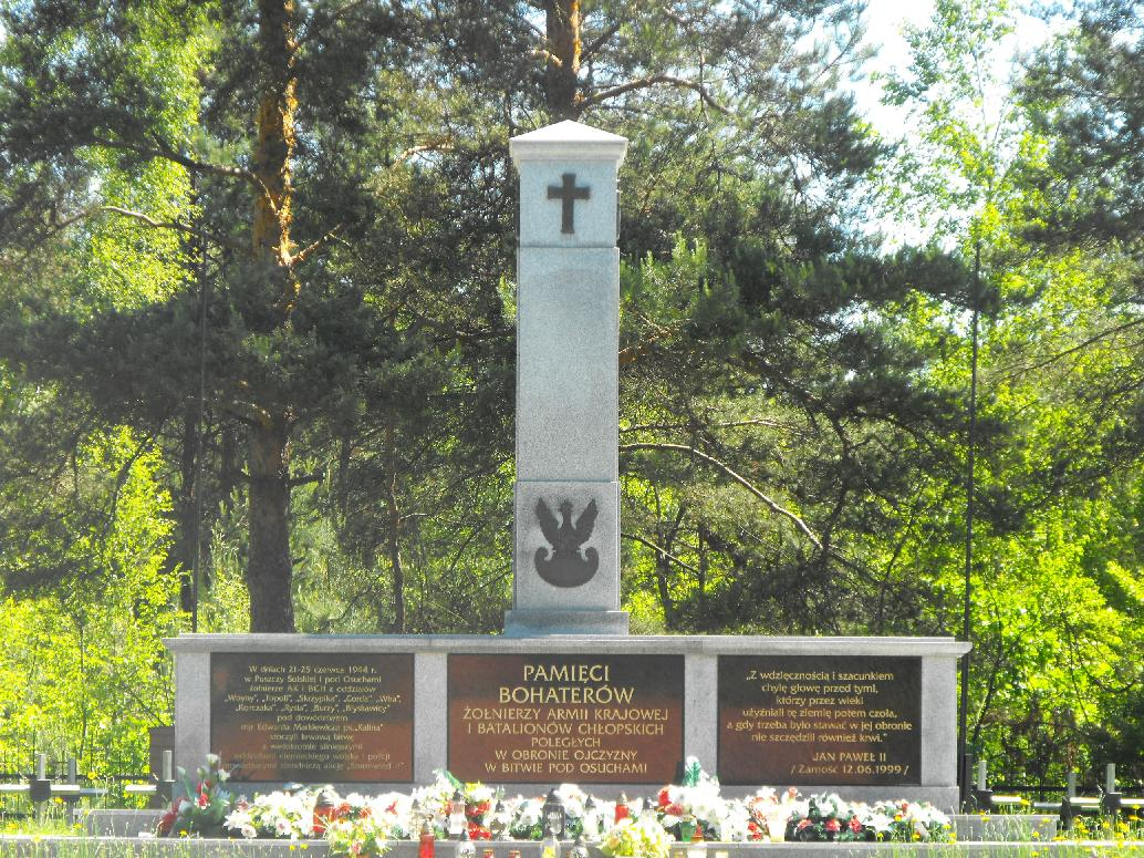 OSUCHY